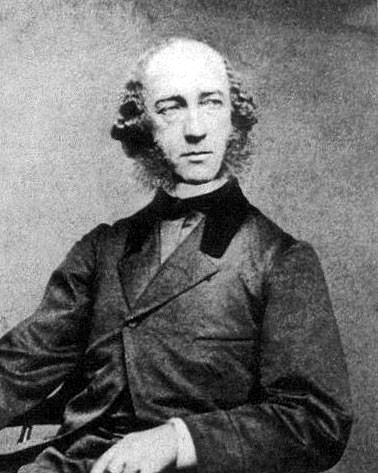 Martin Johnson Heade — renowned American 19th-century painter.